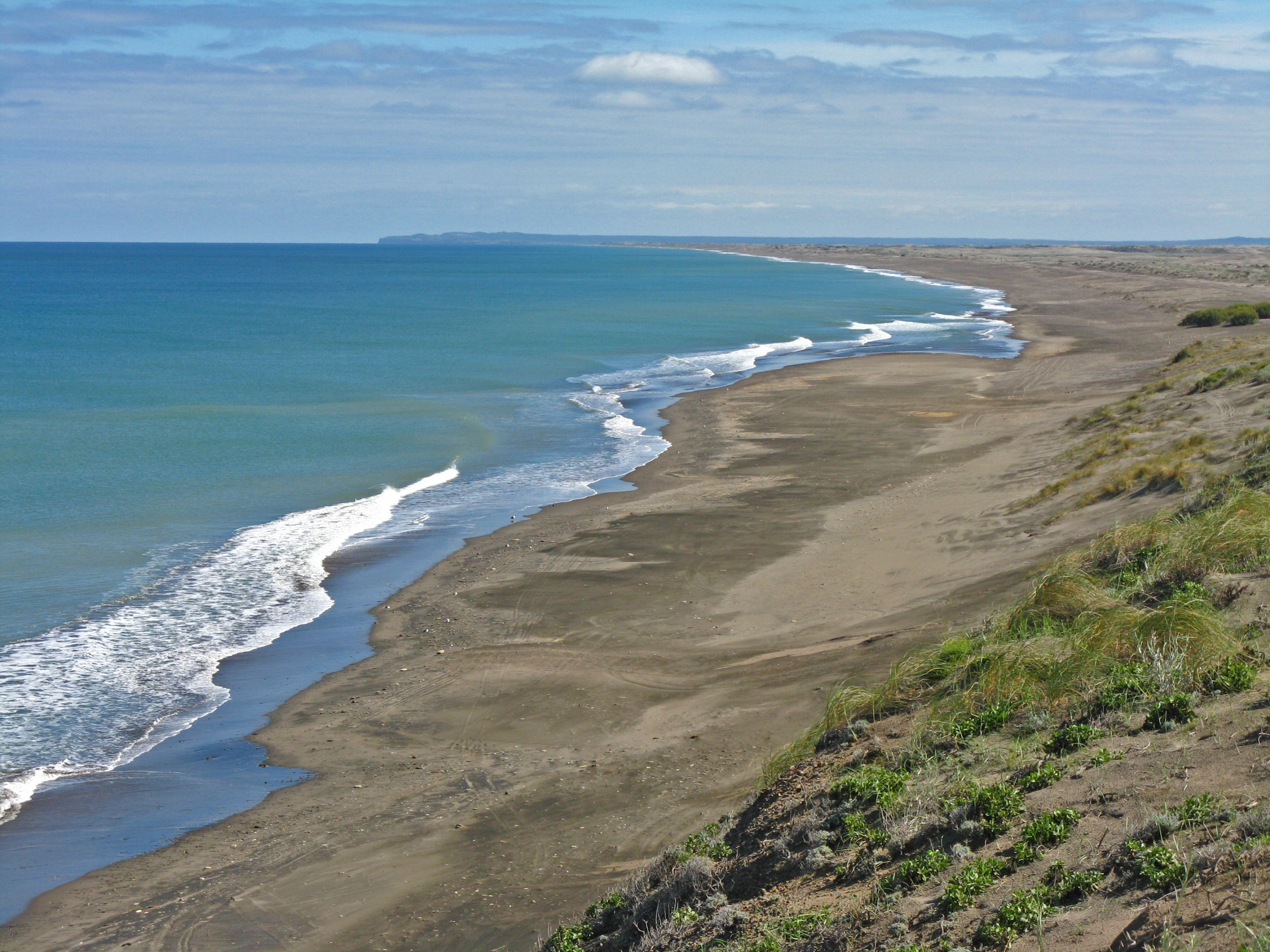 Creek Bay - Rio Negro's Coast Road) - 2010 - Argentina - (Bahia Creek - Camino de la Costa - Argentina)